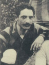 Philippe Ghis, French footballer and athlete